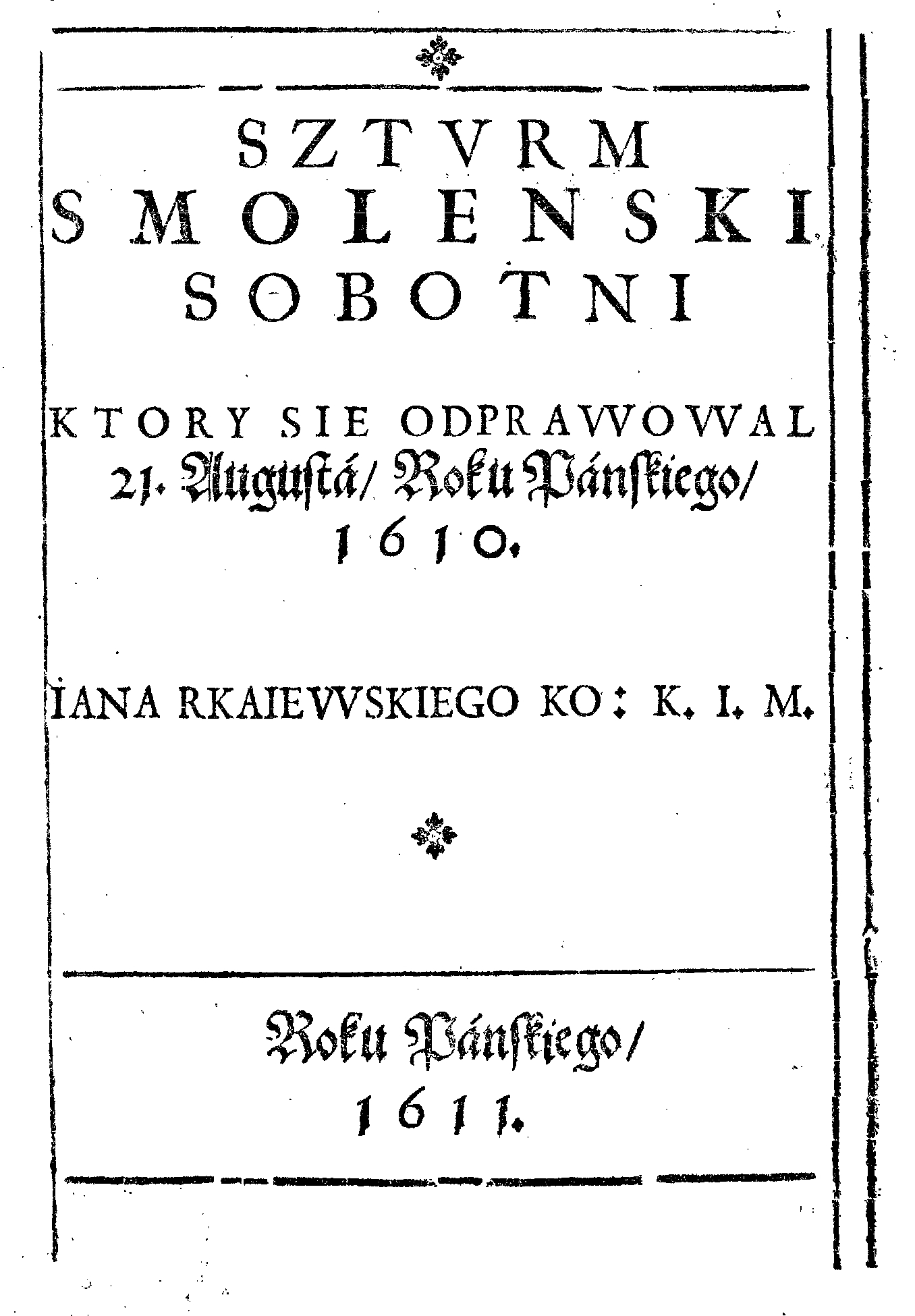 Jan Krajewski, "Szturm smoleński sobotni, który się odprawował 21. Augusta roku pańskiego 1610" 1611.